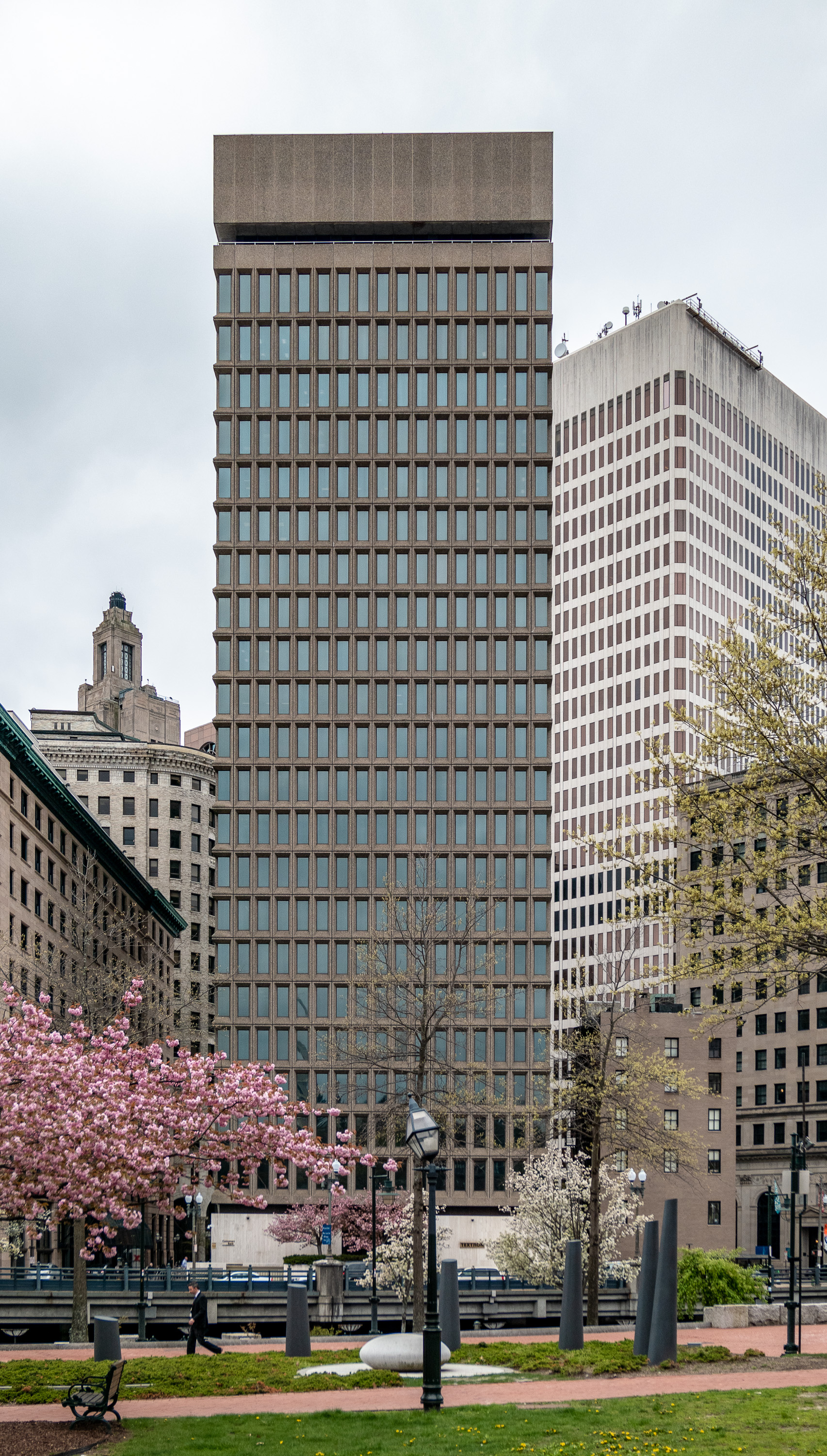 Textron Headquarters Building Providence Rhode Island